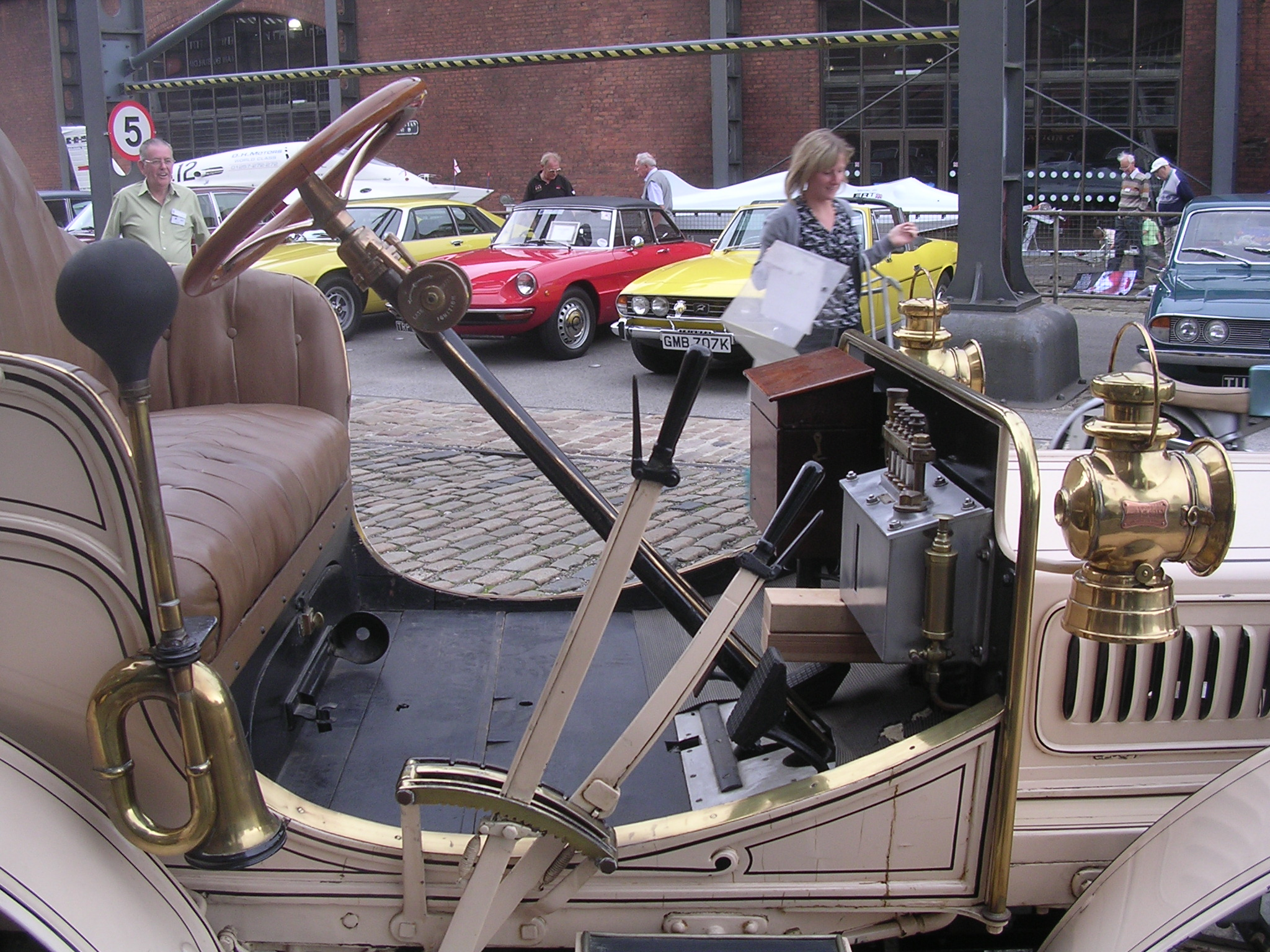 A 1905 model Rolls Royce, as featured in the Museum of Science and Industry in Manchester. This car, registration AX148, was built in the original Manchester factory, and is the oldest such vehicle on public display.